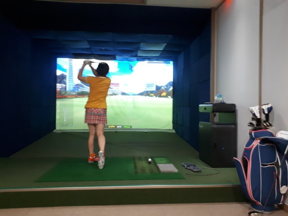 It is a scene of playing screen golf.